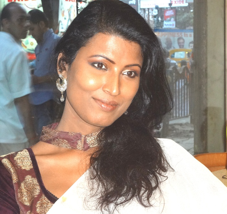 This is the photograph of Tista Das. The photo has taken on the day of her movie premier in Rabindrasadan, Kolkata.Tdsd15 (talk) 19:38, 8 March 2015 (UTC)